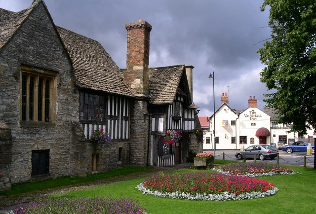 Evesham Almonry heritage centre A delightful museum of local life in this ancient building